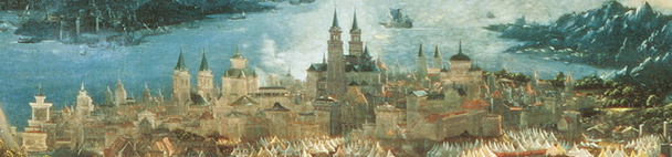 Battle of Alexander the Great against Persian King Darius